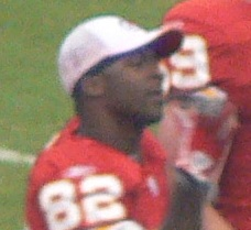 coin toss before a preseason game between Houston Texans and Kansas City Chiefs in 2006